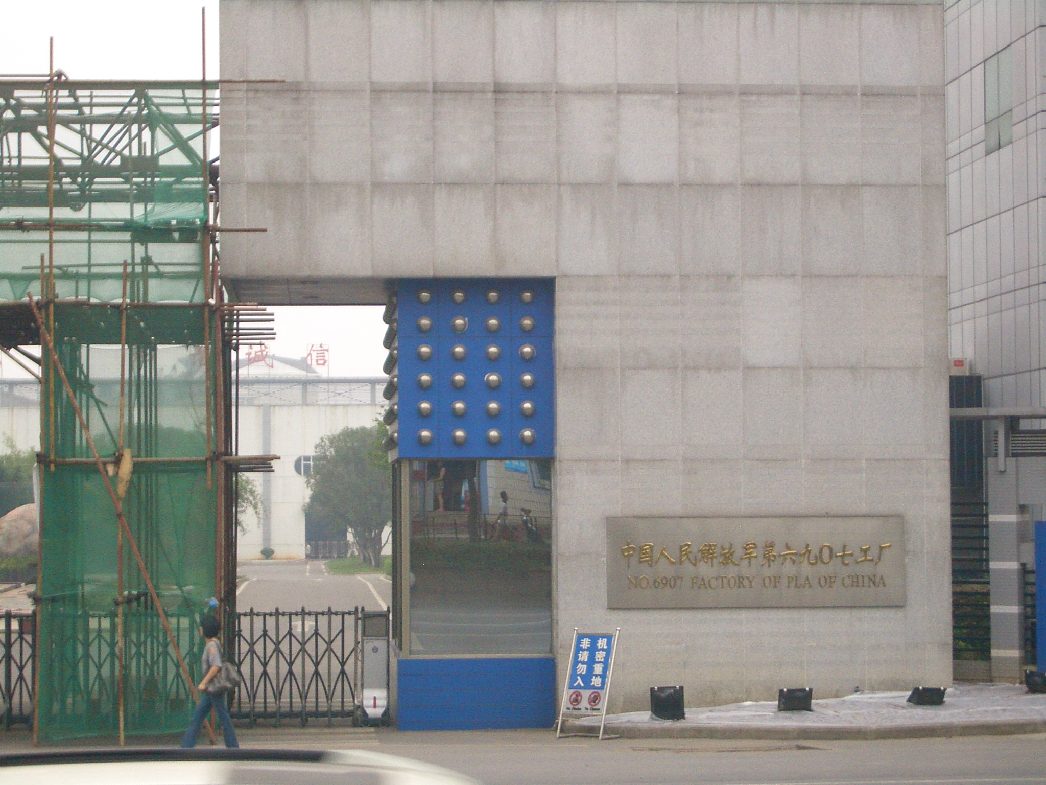 Entry to No. 6907 Factory of PLA of China , off Luoyu Rd in Wuhan